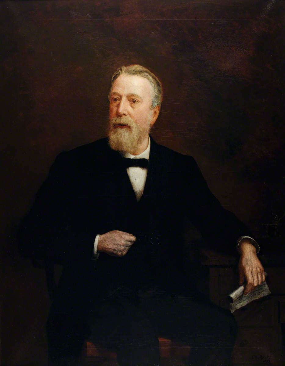 A painting from the Framed Works of Art collection at the National Library of wales.